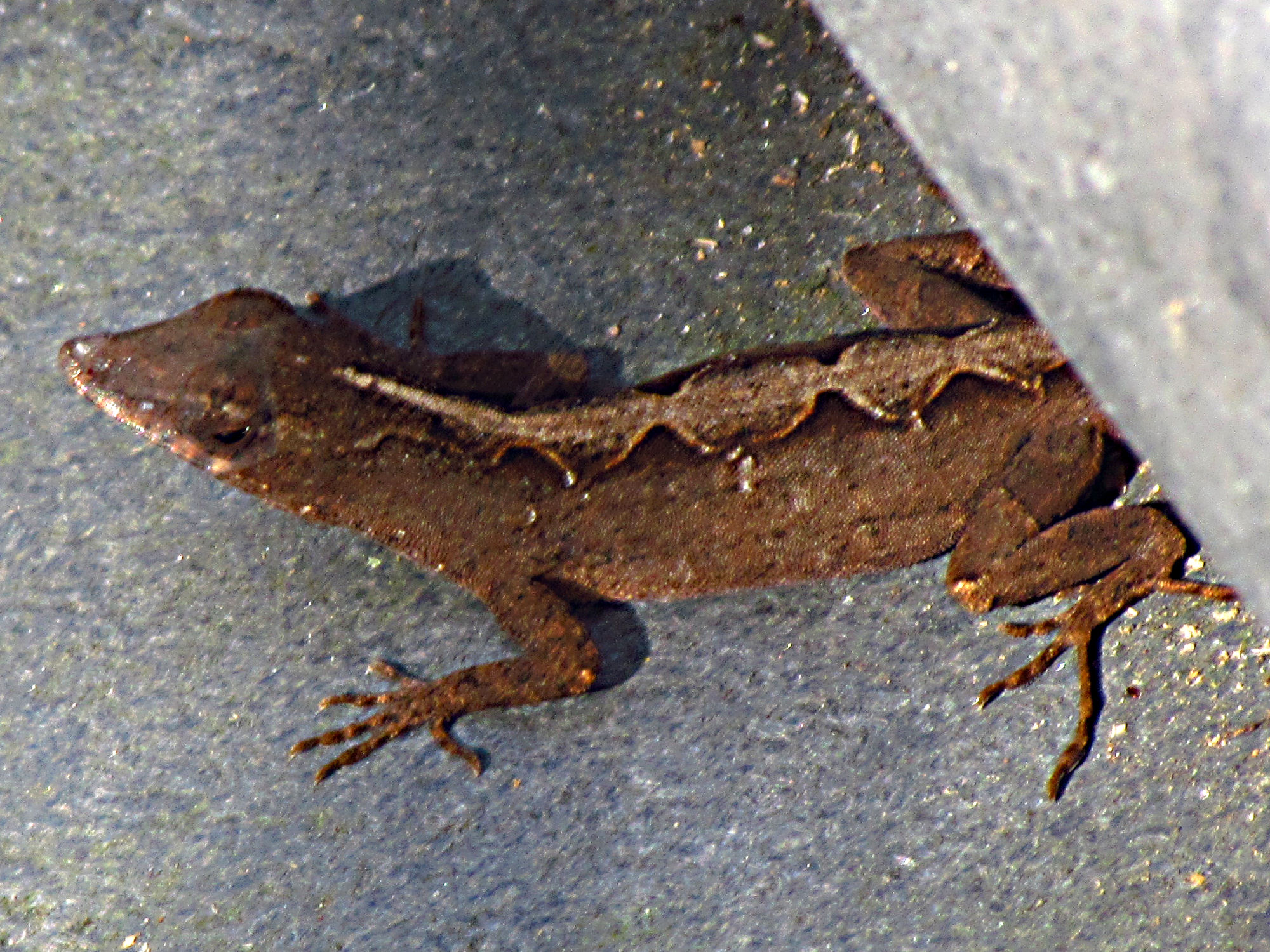 Brown Anole (Anolis sagrei), female, J.N. "Ding" Darling National Wildlife Refuge, Florida, Ontario